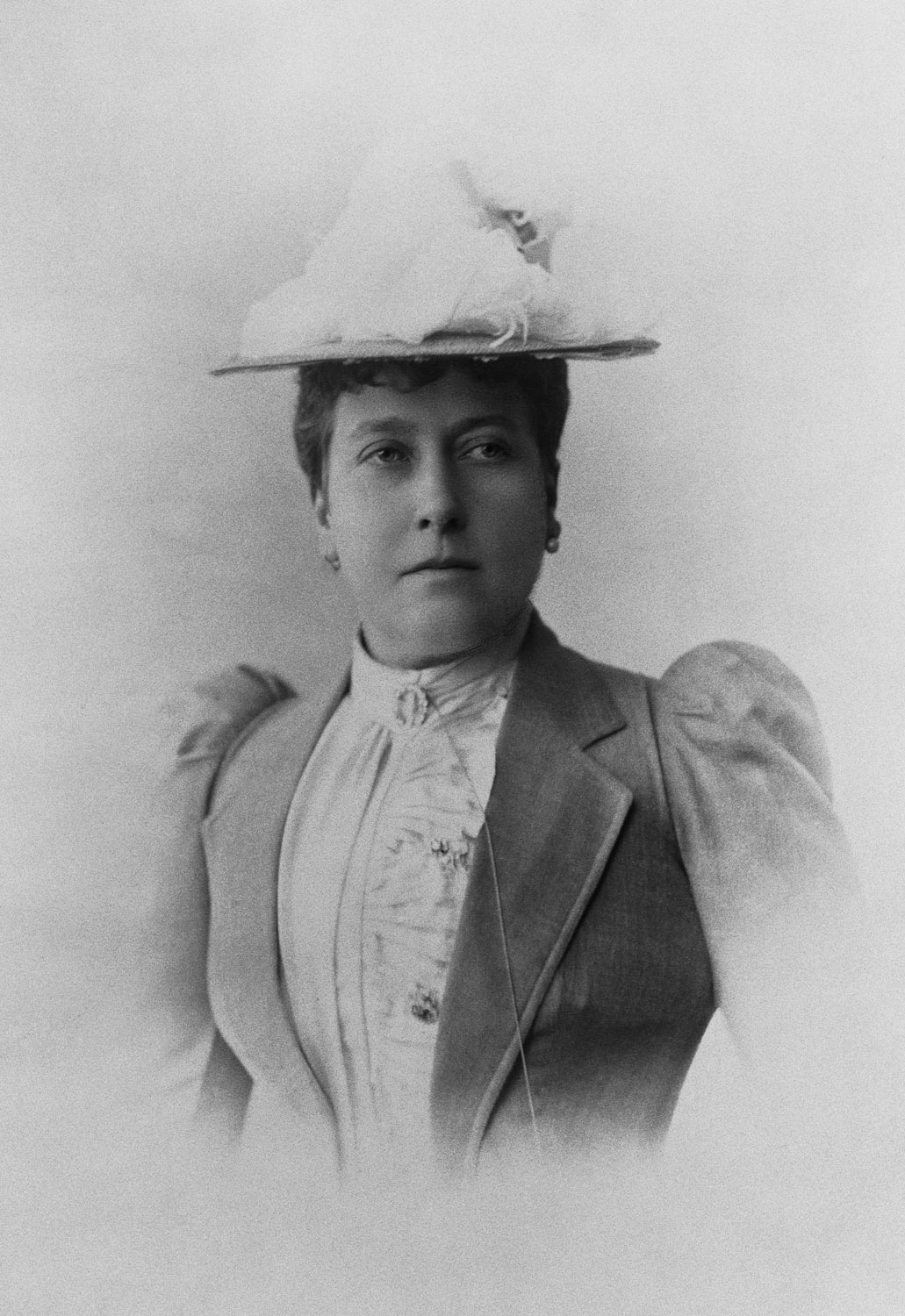 Half length of Princess Helena facing front. She wears brooch at her neck, earrings, hat. Vignette.